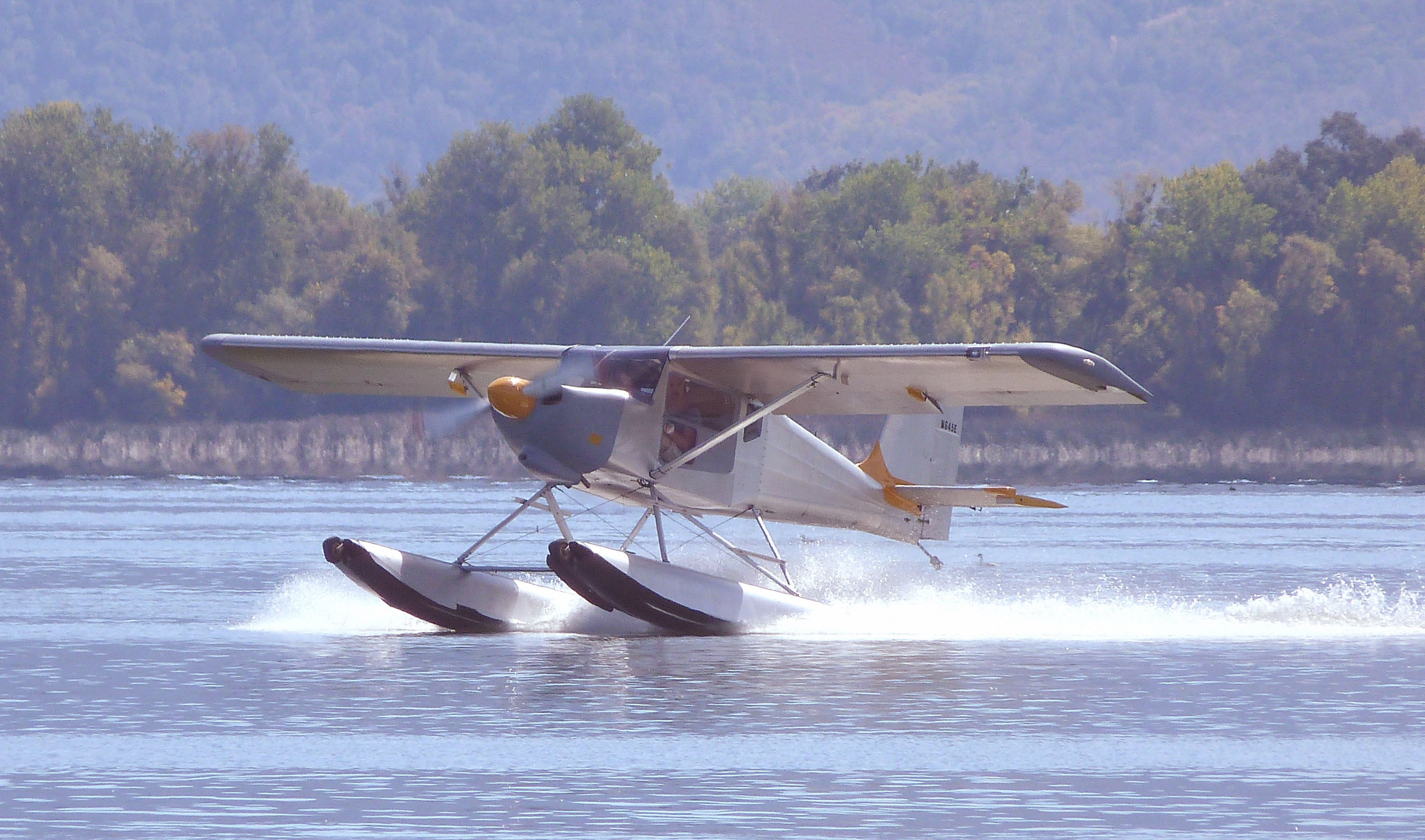 Clear Lake Splash In Sept 2013